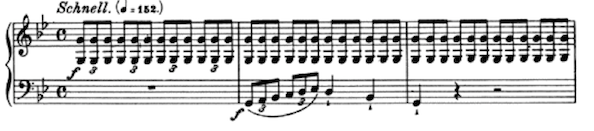 Example of figuralism: Erlkönig by Franz Schubert.